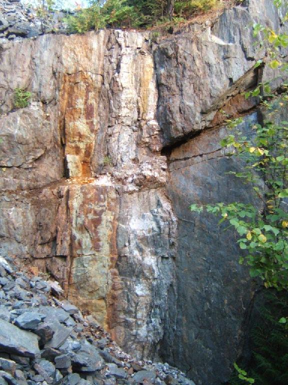 A vertical quartz vein exposed in a trench at Beanland Mine in Temagami, Ontario, Canada.